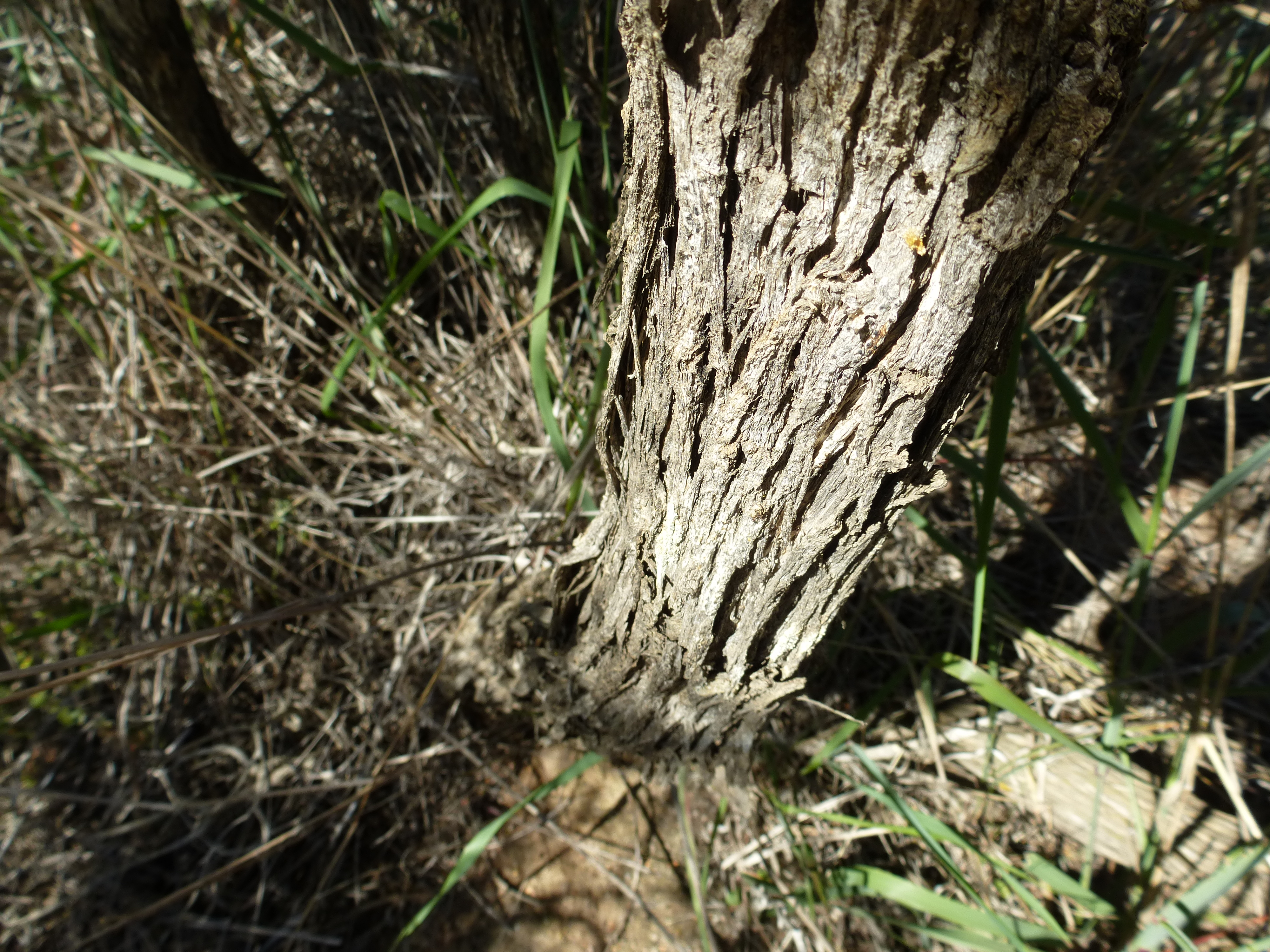 Melaleuca depressa near White Peak Road, N of Geraldton